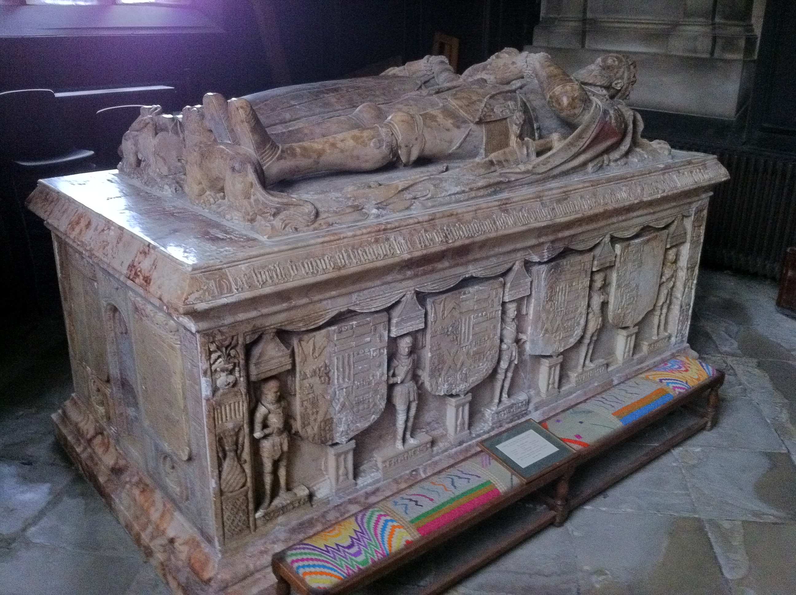 St Helen's parish church, Ashby-de-la-Zouch, Leicestershire: chest tomb of Francis Hastings, 2nd Earl of Huntingdon (1514–61)